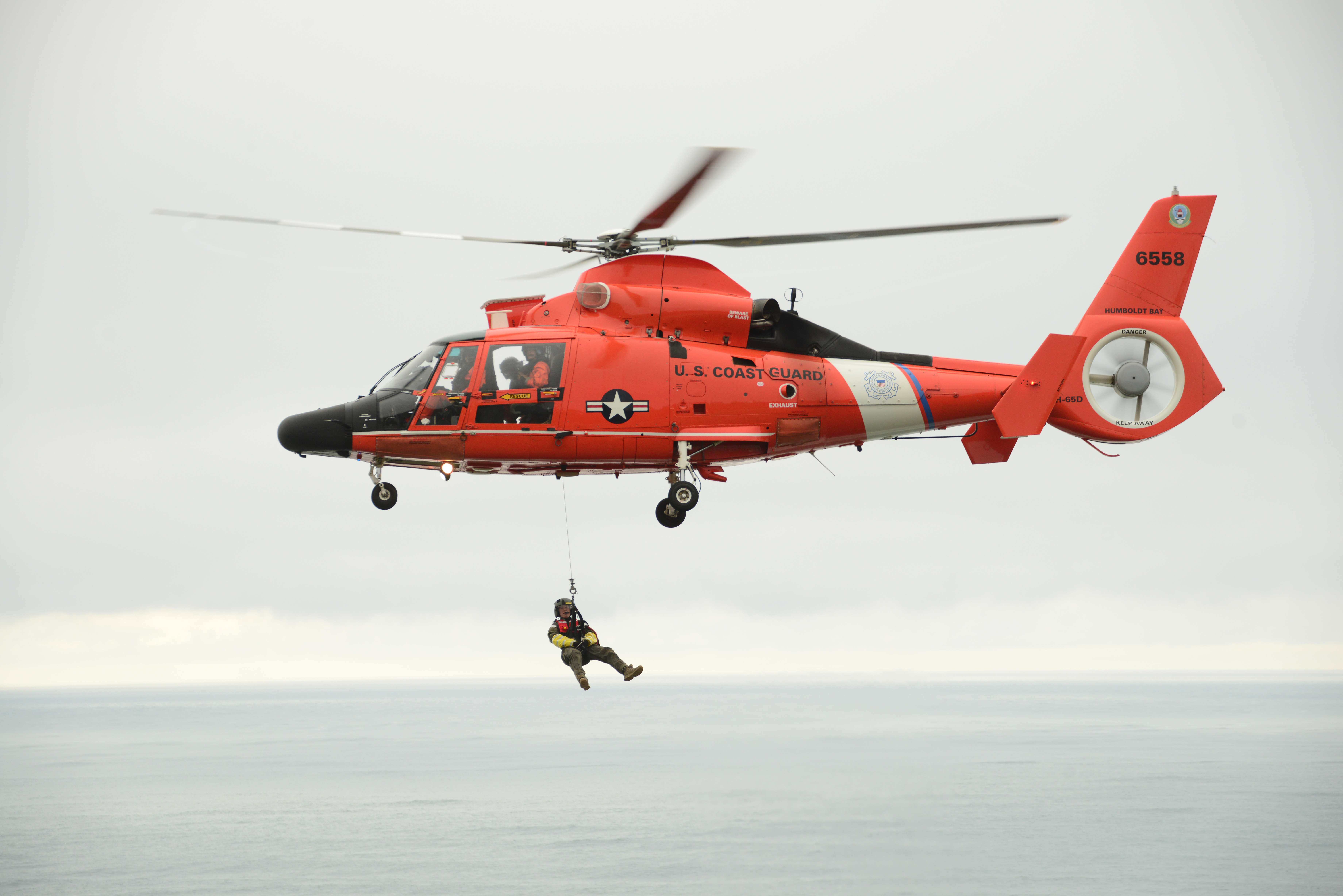 Senior Airman Allen-Mikel Armstrong, from the 212th Pararescue Squadron in Anchorage, Alaska, dangles from an MH-65 Dolphin helicopter during training near the North Head Light in Ilwaco, Wash., Nov. 10, 2016. Armstrong was training with the Coast Guard as part of Advanced Helicopter Rescue School. U.S. Coast Guard photo by Petty Officer 1st Class Levi Read. Unit: U.S. Coast Guard District 13